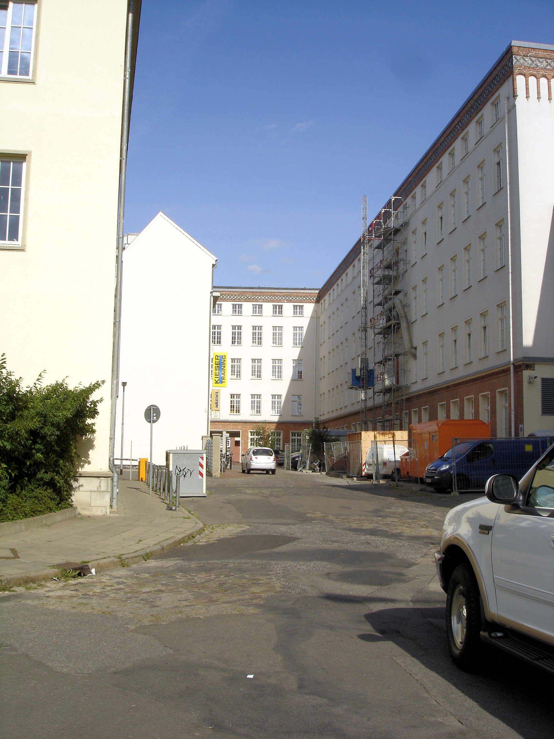 Street in the historic city of Rostock